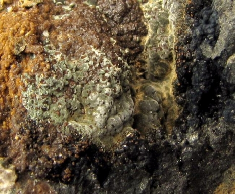 Whitmoreite, Beraunite, Rockbridgeite (Size: 4.8 x 3.4 x 2.4 cm) Locality: Palermo No. 2 mine, Groton, Grafton County, New Hampshire, USA Whitmoreite, beraunite and rockbridgeite are rare hydrated iron phosphates found in complex zoned granitic pegmatites. This rich specimen is from very near to the Type Locality of whitmoreite (Palermo #1 Mine) and is from the collection of the species' namesake, Robert Whitmore. Gemmy and lustrous, reddish-brown whitmoreite crystals are next to greenish clusters of beraunite and black botryoids of rockbridgeite. Dated 2003. Ex. Robert Whitmore Collection.